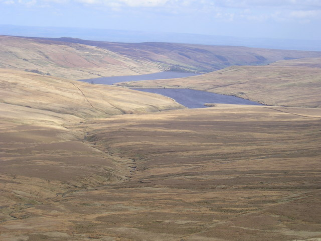 Angram & Scar House reservoirs from Nidd Head.